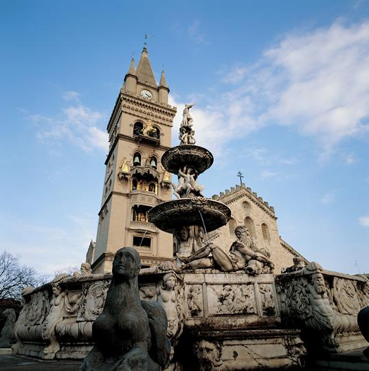 Fountain of Orion (1553) in Messina, Italy, by Giovanni Angelo Montorsoli. behind it, the Cathedral.